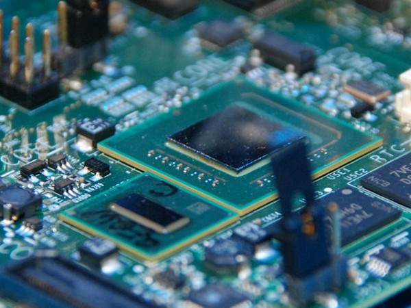 Intel Atom in the foreground, Intel 945GSE chipset in the background